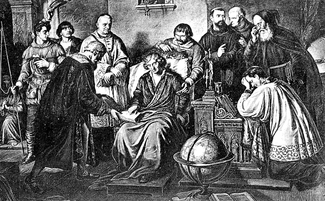 Death of Nicolaus Copernicus